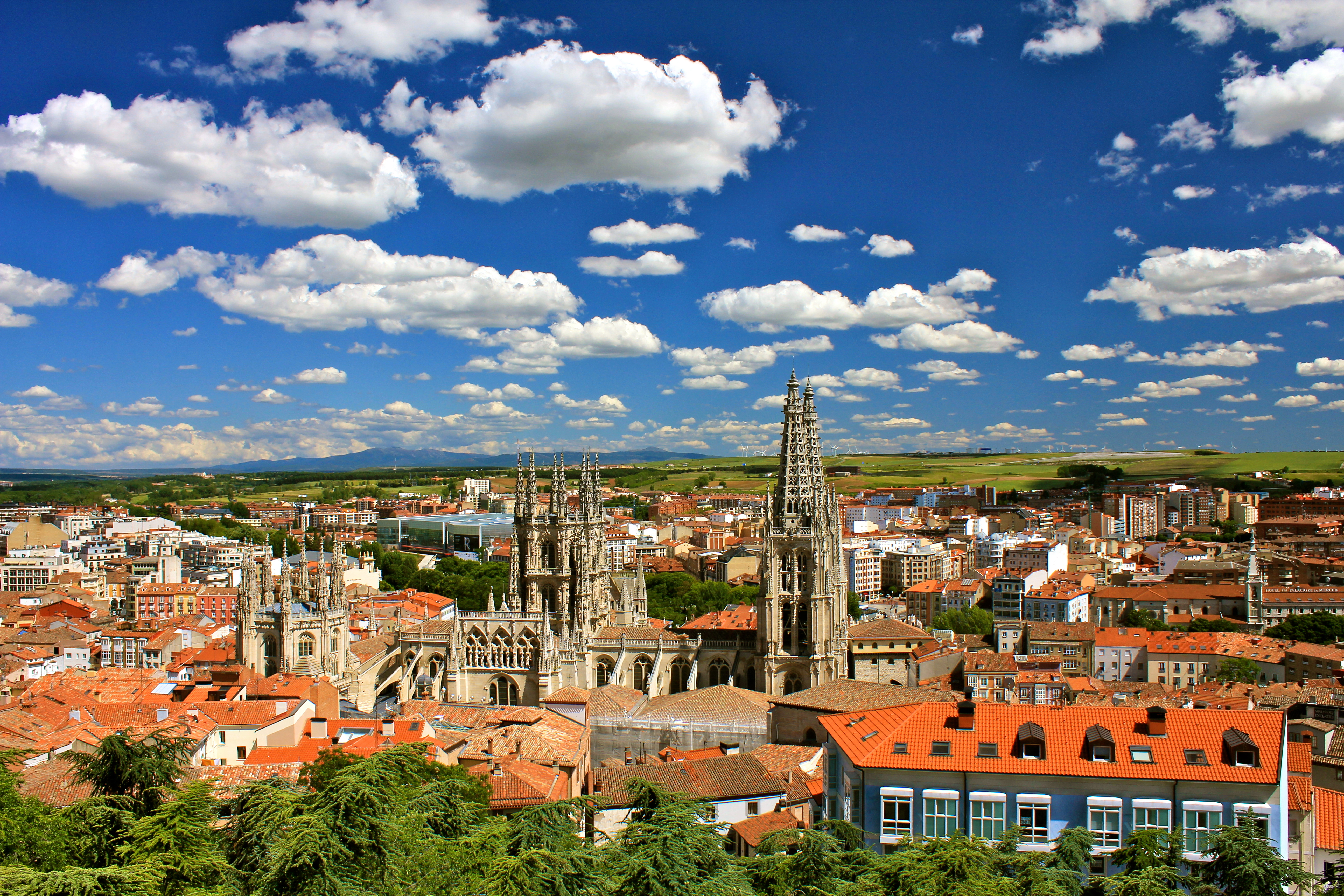 View of Burgos from the castle facing south east, photo taken early June 2011